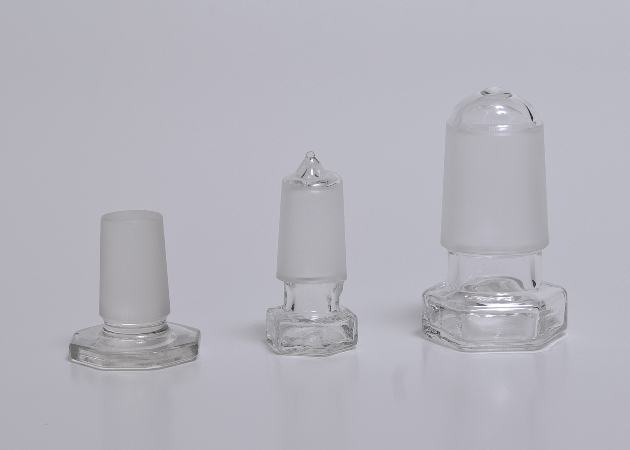 A set of glass bottle plugs